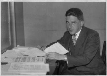 Assistant Counsel at Treasury during WWII; Reparations Commission to Japan; and prosecutor at Nuremburg, primarily of IG Farben